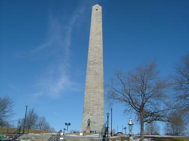 Bunker Hill Monument. Monument in Boston, U.S.A.